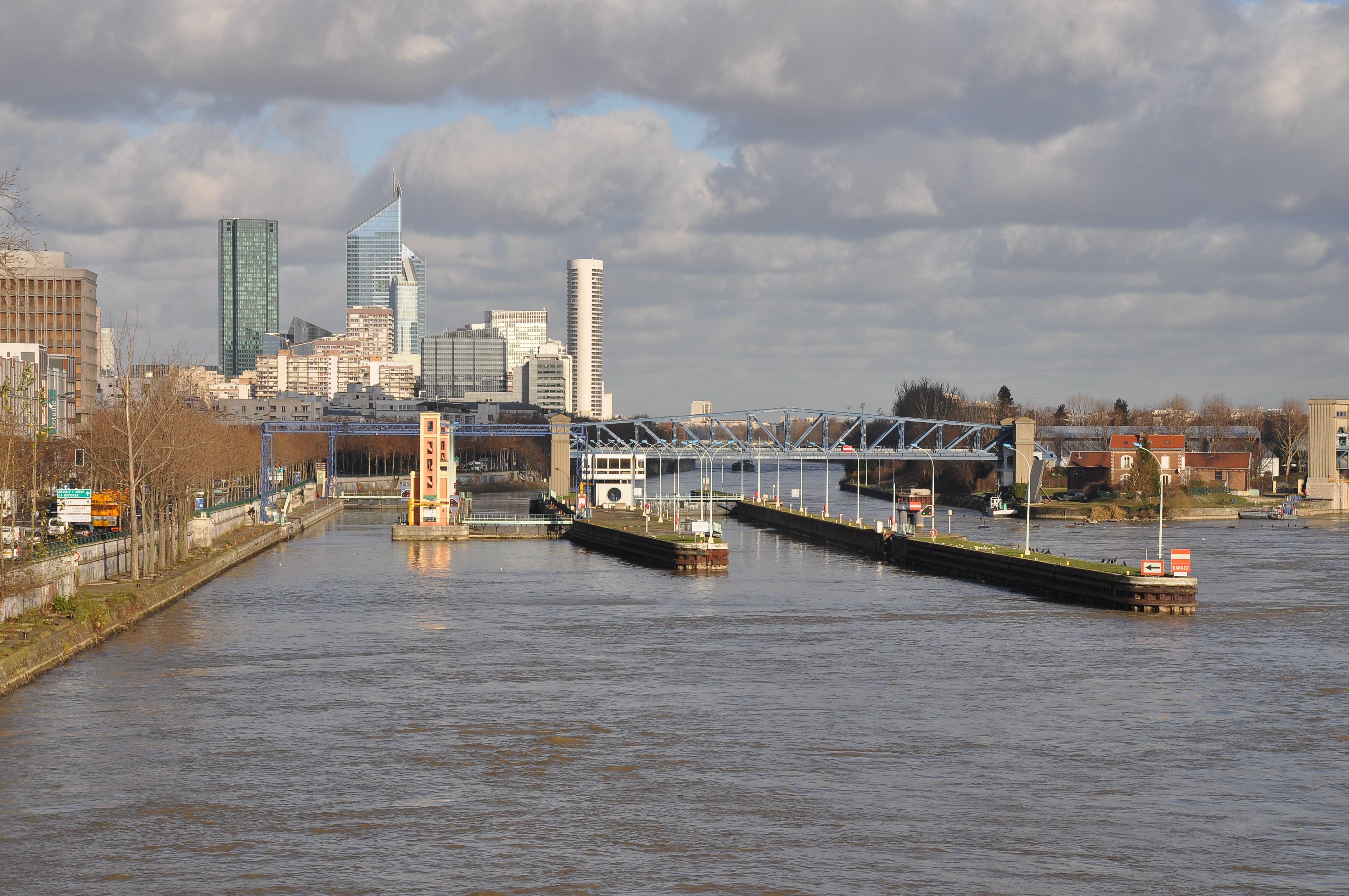 Canal lock in Suresnes, Hauts-de-Seine department of France. In the background the buildings of La Défense.